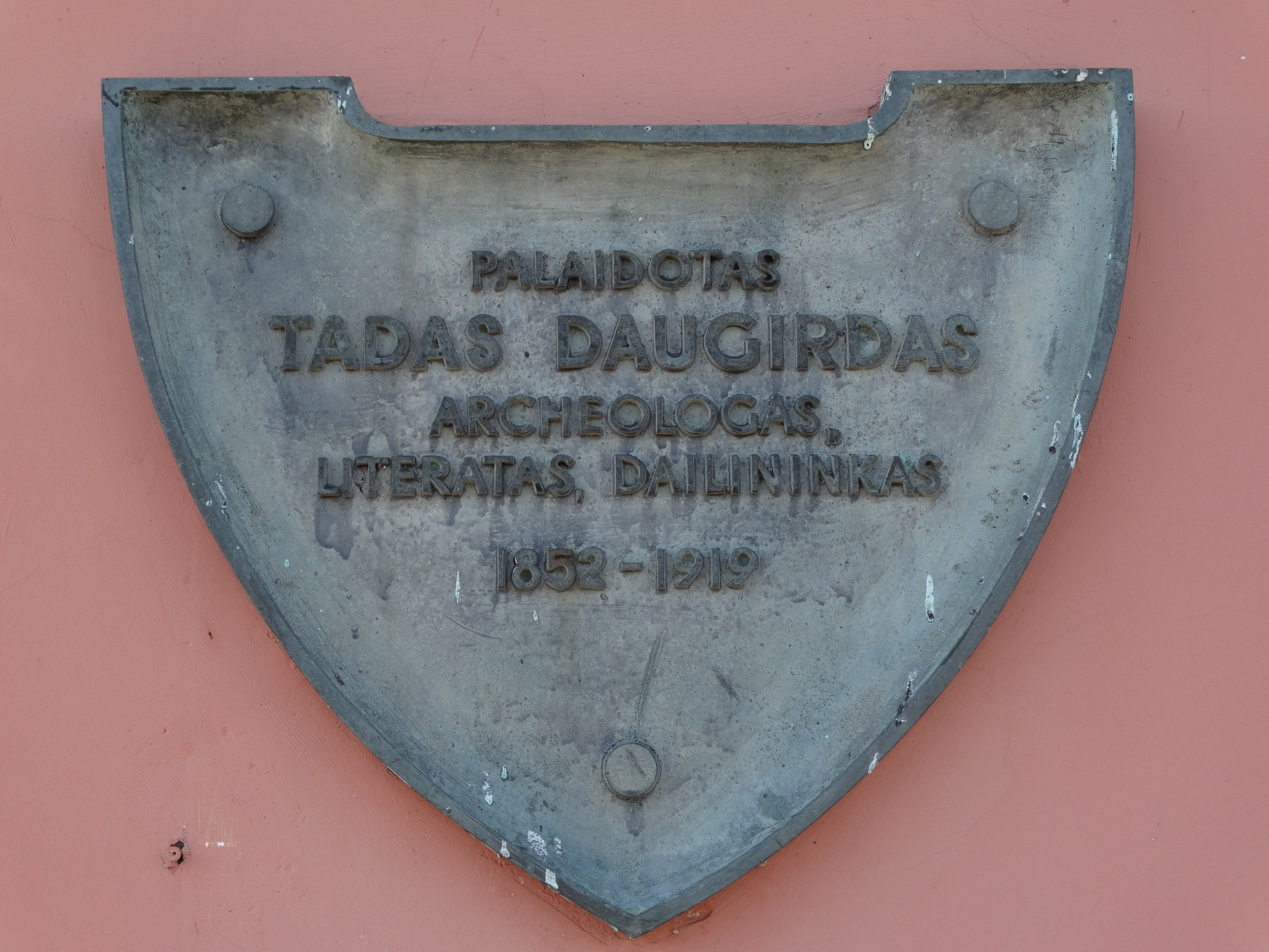 Plaque in memory of Tadas Daugirdas, chapel, Ariogala, Raseiniai district, Lithuania